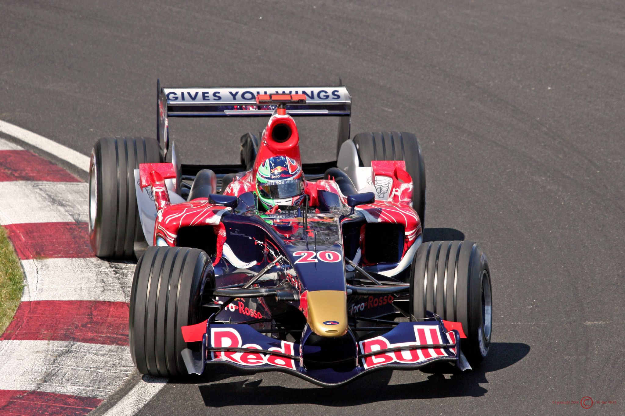 Vitantonio Liuzzi driving for Scuderia Toro Rosso at the 2006 Canadian Grand Prix.